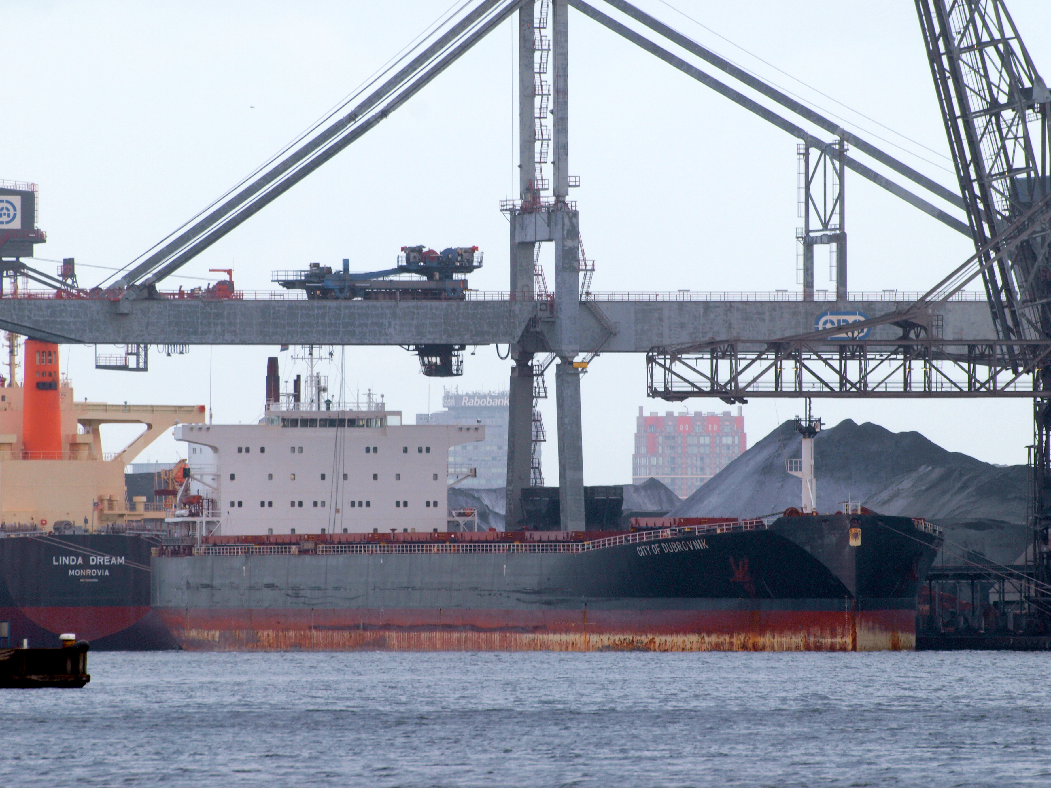 Photographed in and around the harbours of Amsterdam.